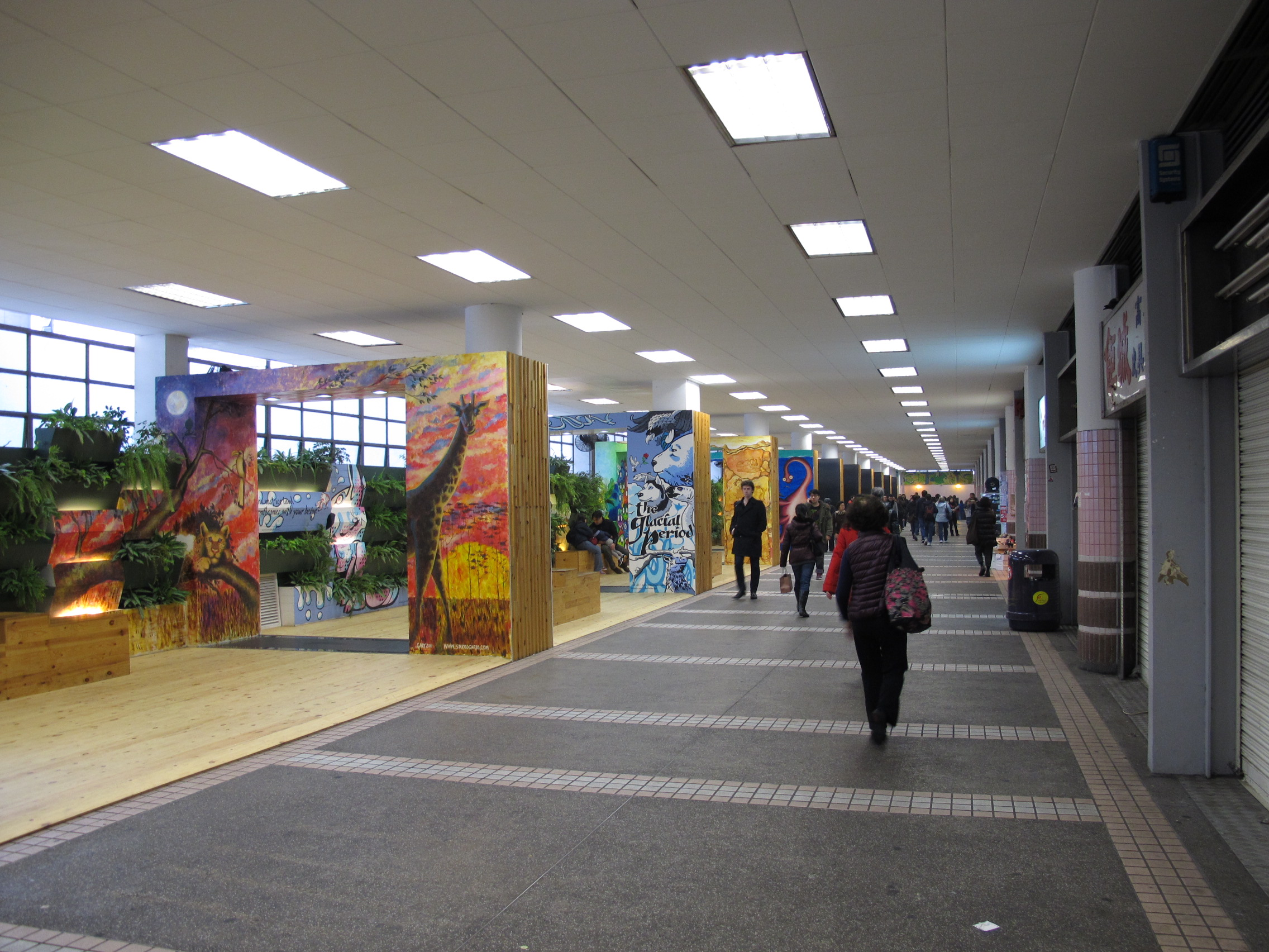 Old Central Market Public Access